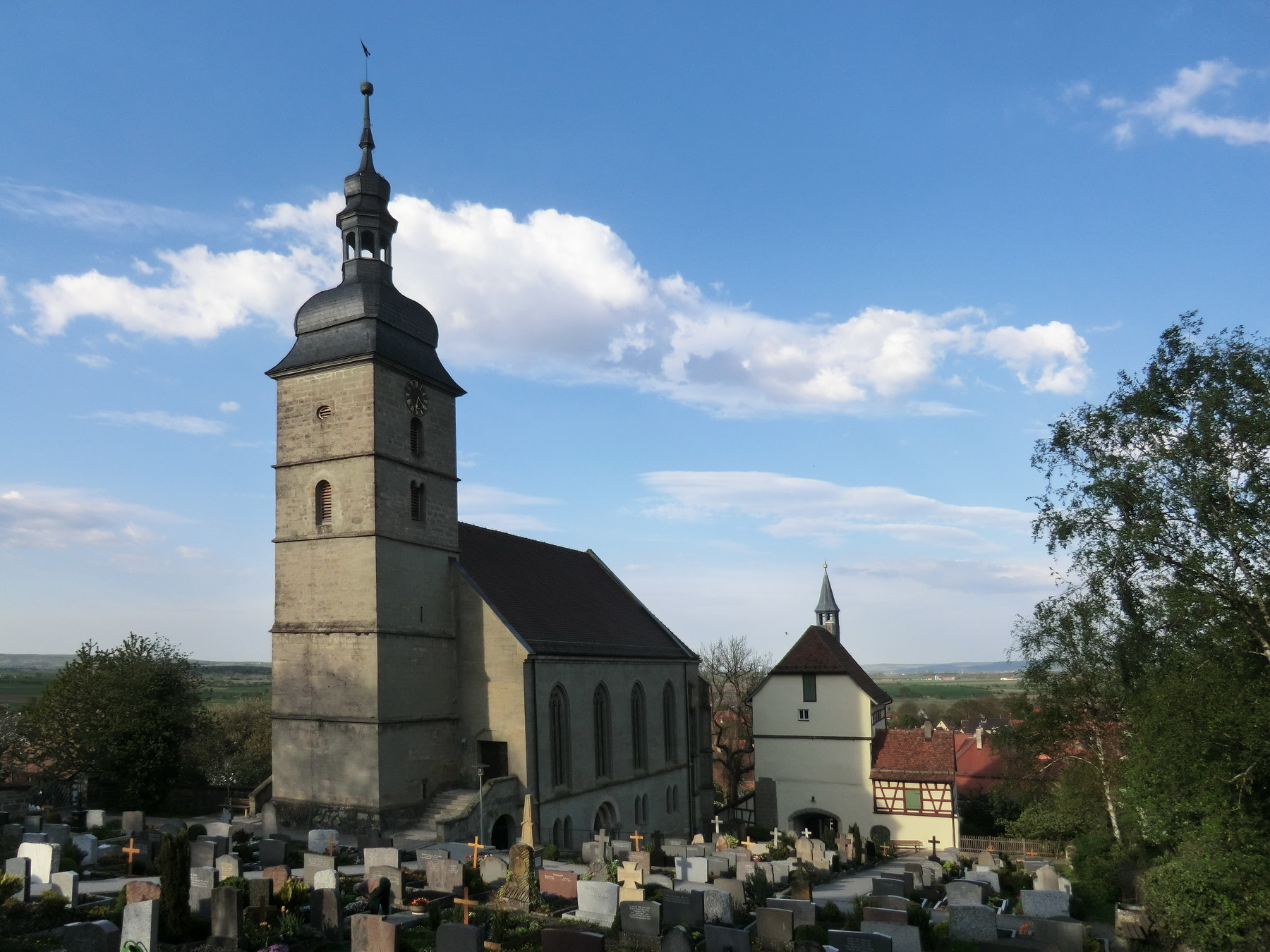 St. Johannis Native nameSt.-Johannis-Kirche, BurgbernheimLocationBurgbernheim, Middle Franconia, GermanyCoordinates49° 26′ 59.78″ N, 10° 19′ 16.41″ E Authority control : Q41345055 institution QS:P195,Q41345055